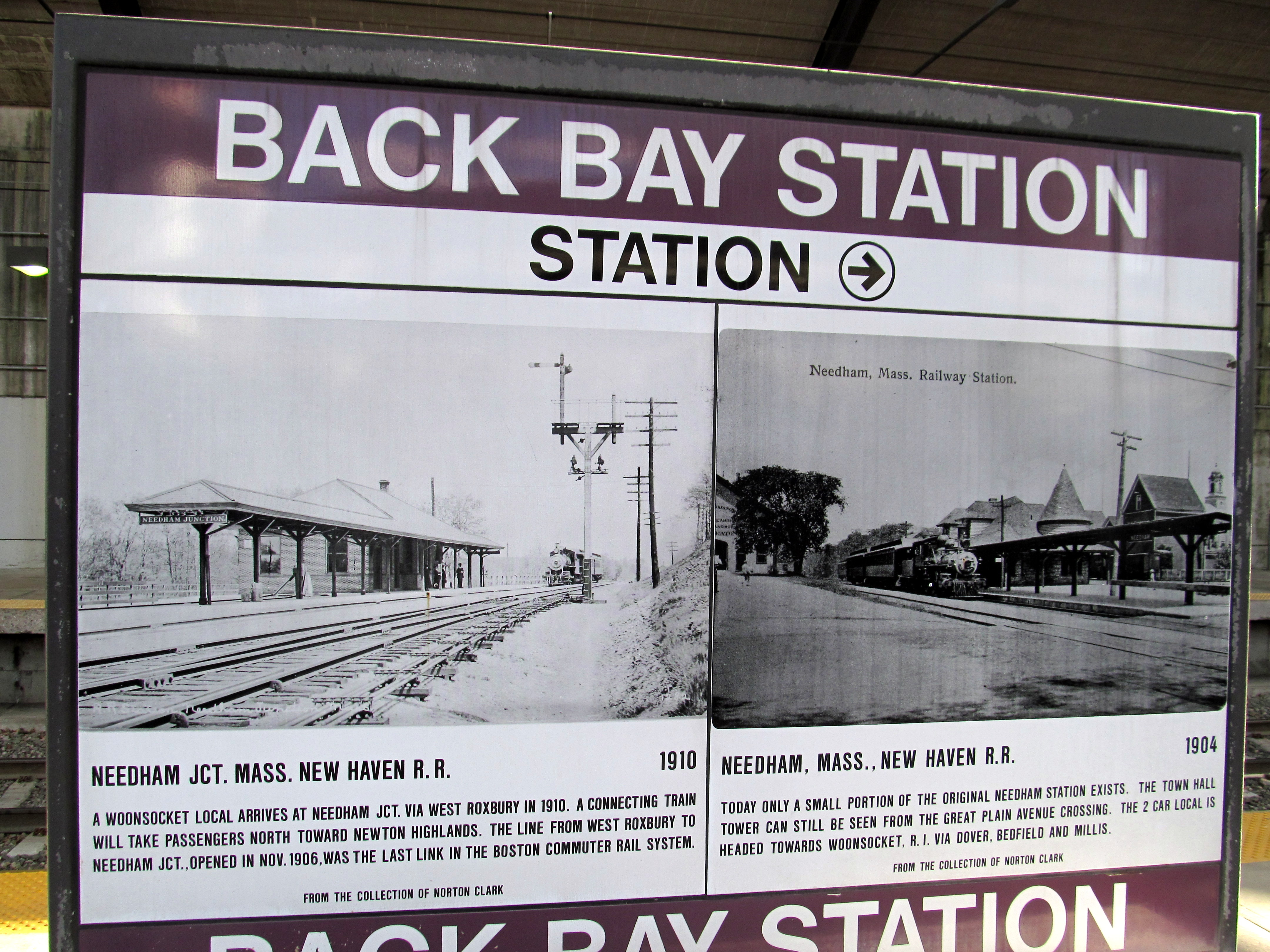 Station sign on the commuter rail / Amtrak platforms at Back Bay station. Like many of the other station signs, it features old images of the commuter rail system. PD justification: the images on the sign - the only copyrightable parts - date to 1904 and 1910 This work was published before January 1, 1923 and it is anonymous or pseudonymous due to unknown authorship. It is in the public domain in the United States as well as countries and areas where the copyright terms of anonymous or pseudonymous works are 93 years or less since publication.